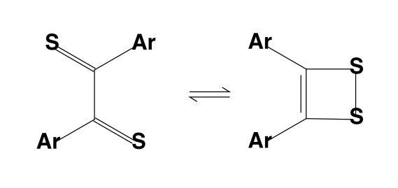 1,2-dithione - 1,2-dithiacyclobutene valence tautomerism. Ar = C6H4NMe2 W. Kusters, P de Mayo, J. Amer. Chem. Soc., 1973, 95, 2383